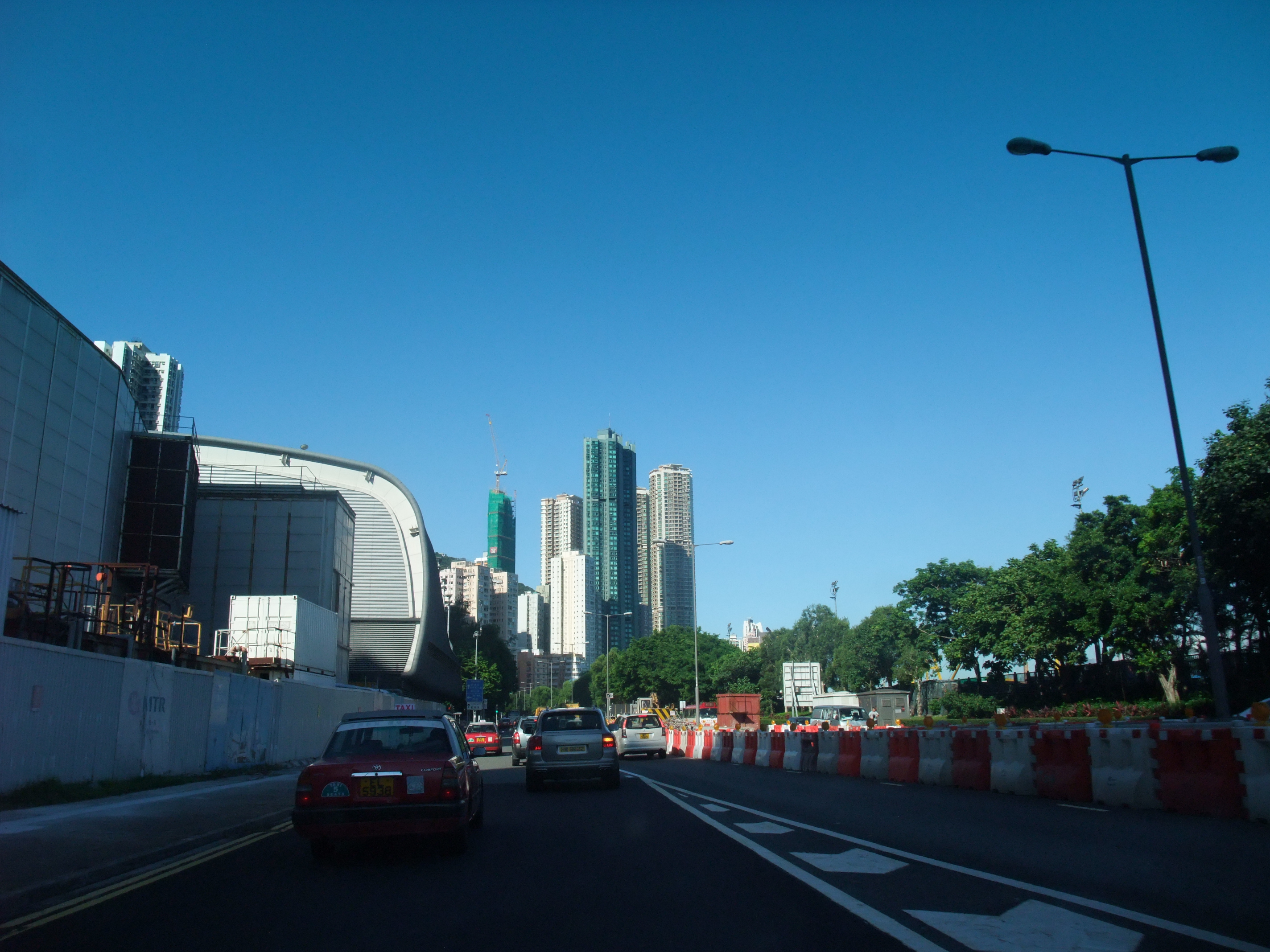 Hong Kong